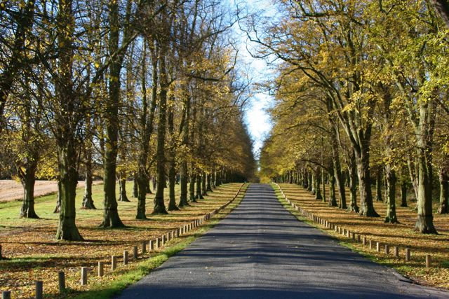 Limetree Avenue, Clumber Park